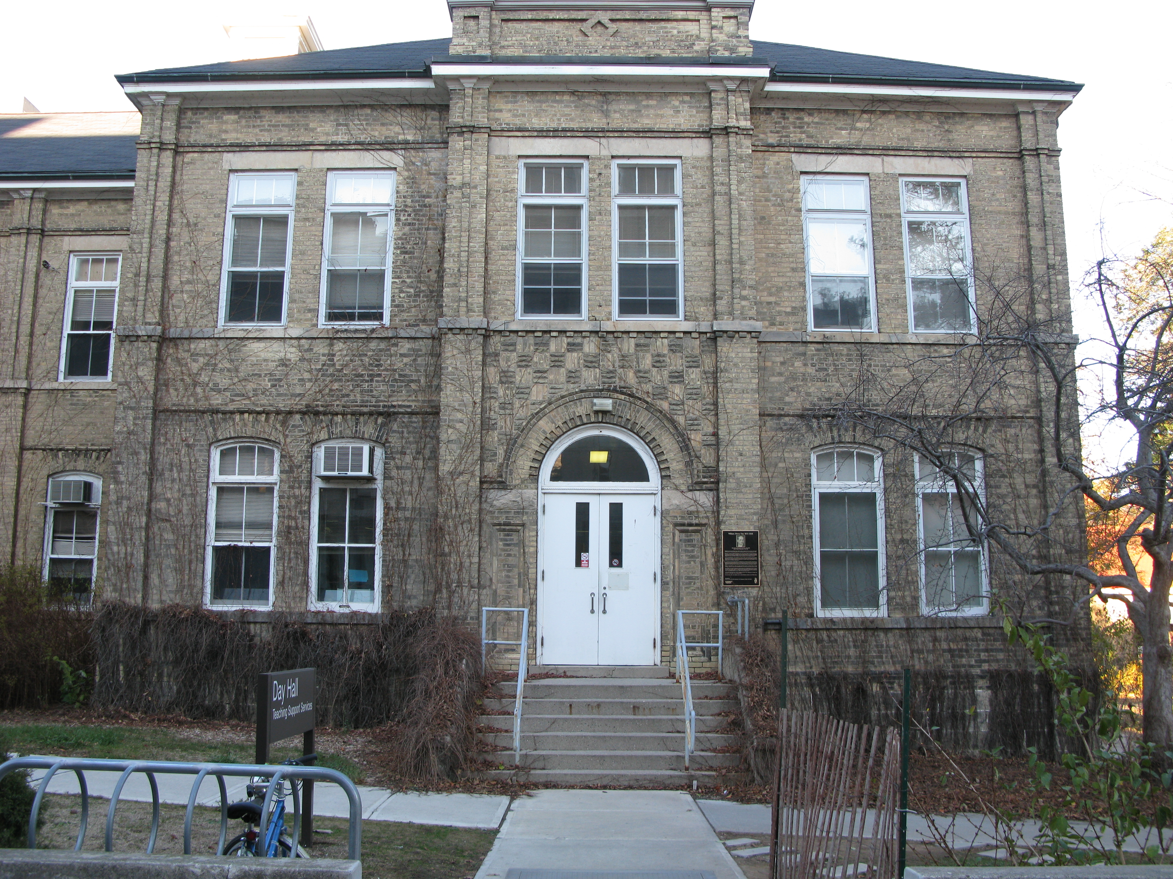 Day Hall at the University of Guelph, Guelph, Ontario, Canada.